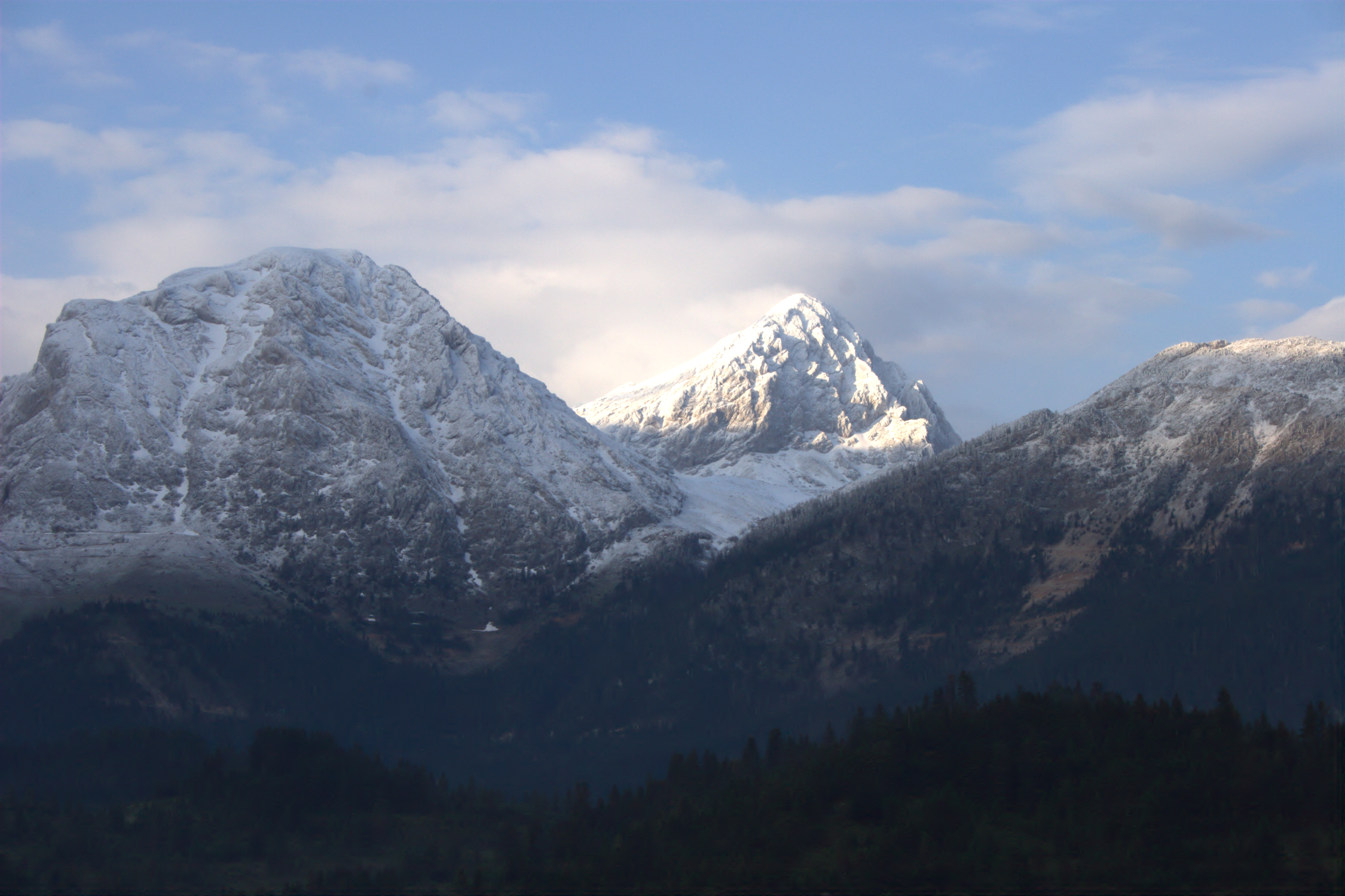 This is a photograph of the mountain Giona, mainlang Greece in the province of Phocis